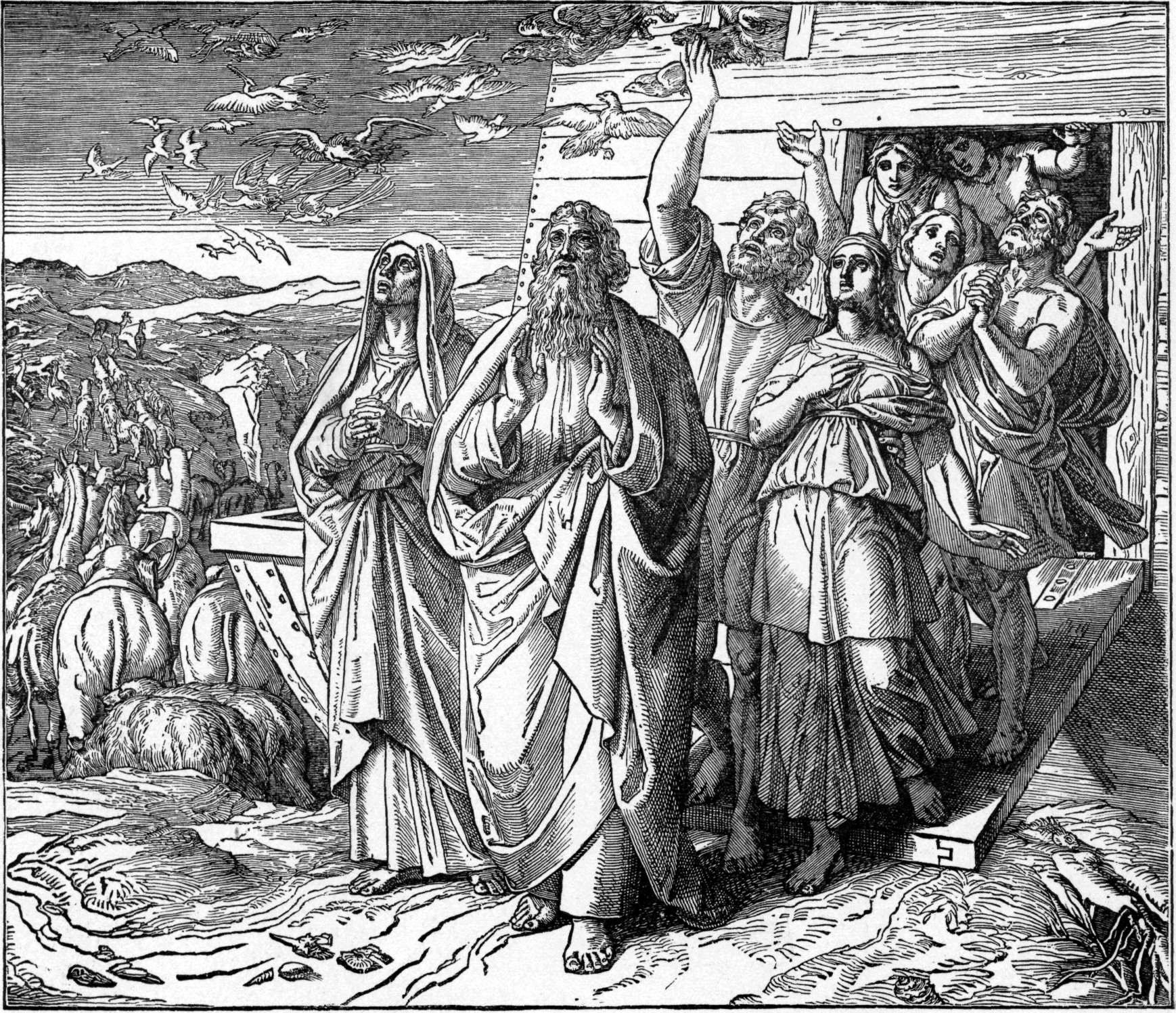 Noah and his wife and his children are coming out of the ark.